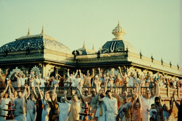 Groop of Hare Krishna devotees at Prabhupada's Palace of Gold (West Virginia)